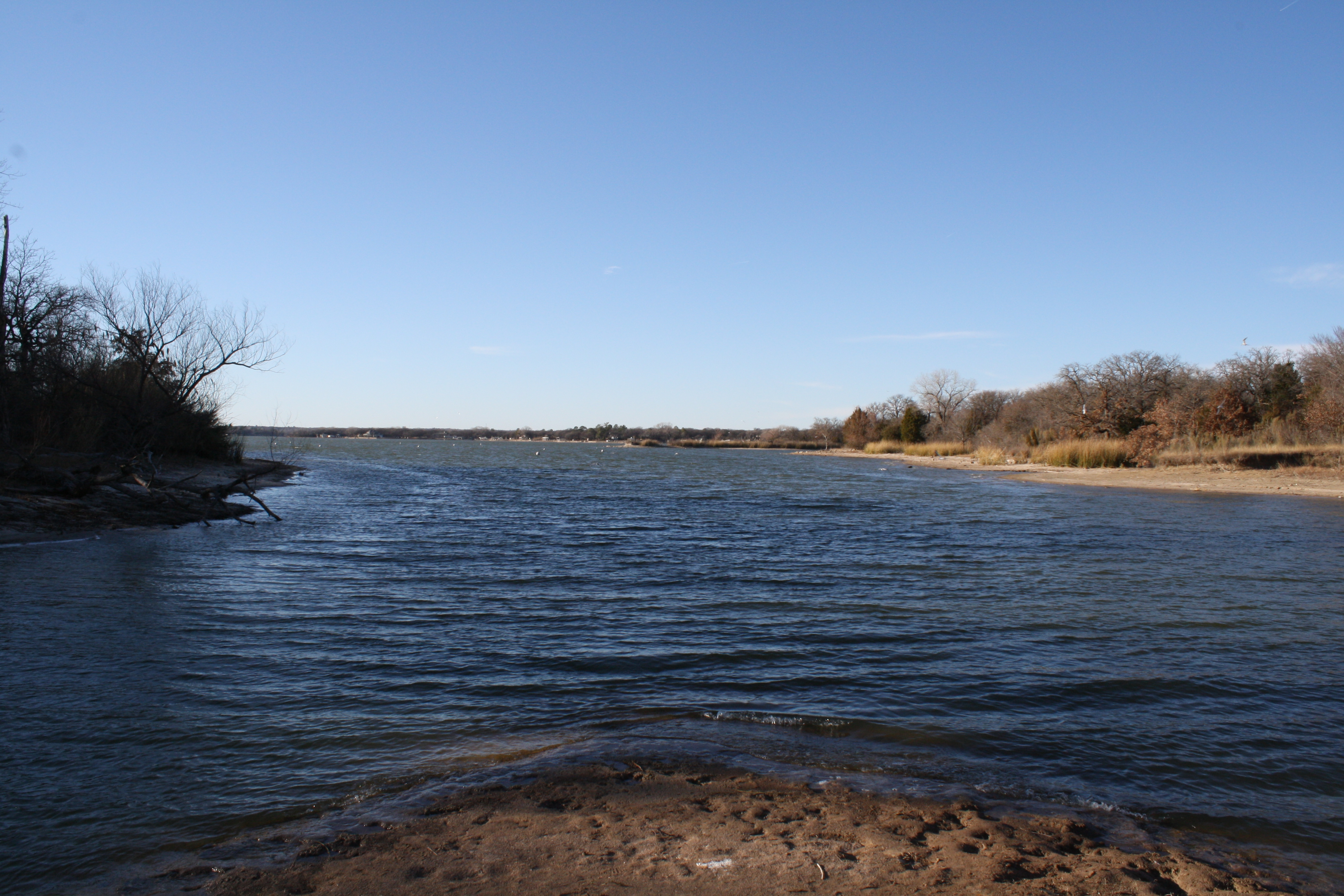 A view of Eagle Mountain Lake taken from the western shore, Eagle Mountain Lake Park, Tarrant County, Texas